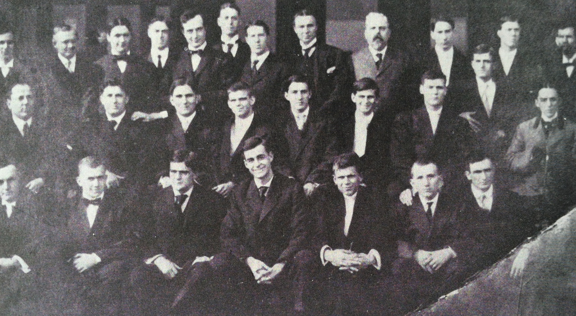 1906 Vanderbilt Commodores football team. Front row, left to right: Frank O. Wynne, Edwin T. Noel, John L. "Honus" Craig, J. Owsley Manier, Captain Dan Blake, Oscar F. "Hoss" Noel, Sam Costen Middle row: George D. Kirkham, W. Tyler "Fatty" McLain, Walter K. Chorn, Bob Blake, J. N. "Stein" Stone, Vaughn Blake, Joe "Beersheba" Pritchard, Alex Cunningham, Fred Watson, Top row: unidentified, Will "Cousin Willie" Pollard, Frank "Stitch" Kyle, Ed Thompson manager, Coach Dan E. McGugin, Will R. Manier Jr., James E. "Fatty" Lockhart, Dr. Lucius E. Burch, Lemuel Fite, Glenn A. "Spick" Hall, Guy Crawford, Dr. D. B. Blake.